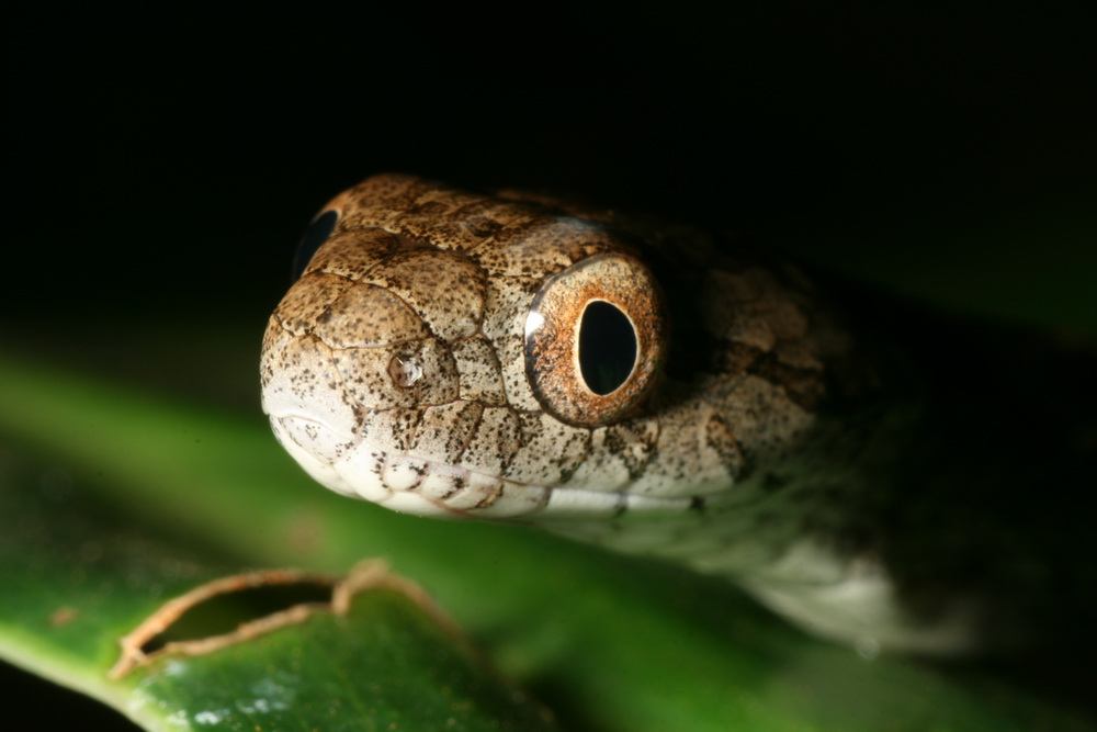 Thamnodynastes strigilis, perhaps now syn. of T. pallidus